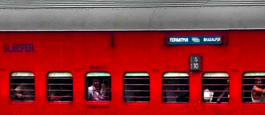 Yesvantpur bound Anga Express from Bhagalpur crossing Anakapalle railway station